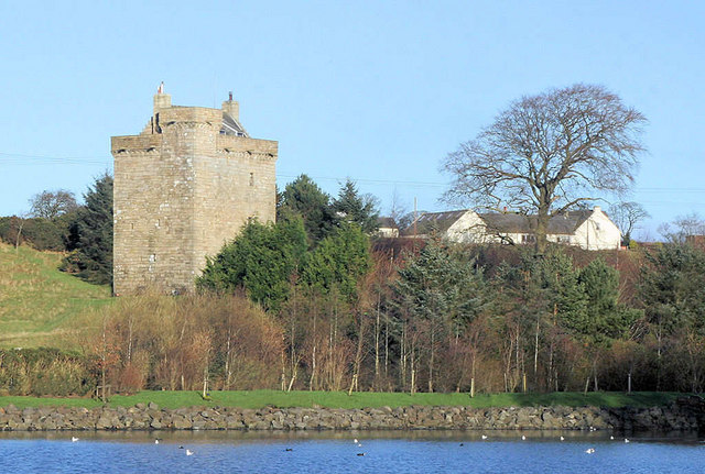 Mains Castle, East Kilbride A view across the pond at the Heritage Park, East Kilbride.